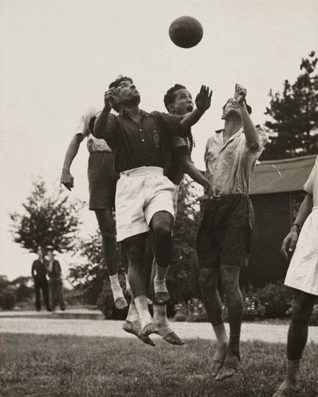 Daily Herald Archive at the National Media Museum. At 1948 Olympics, at London, The Indian Football Team training in Richmond Park Olympic Camp. They proposed to play bare-footed if the weather was dry enough.